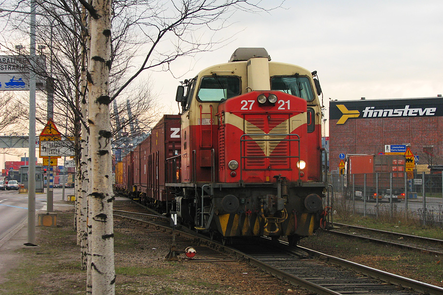 A VR Class Dv12 diesel locomotive no. 2721 in Länsisatama (Western harbour), Helsinki, Finland